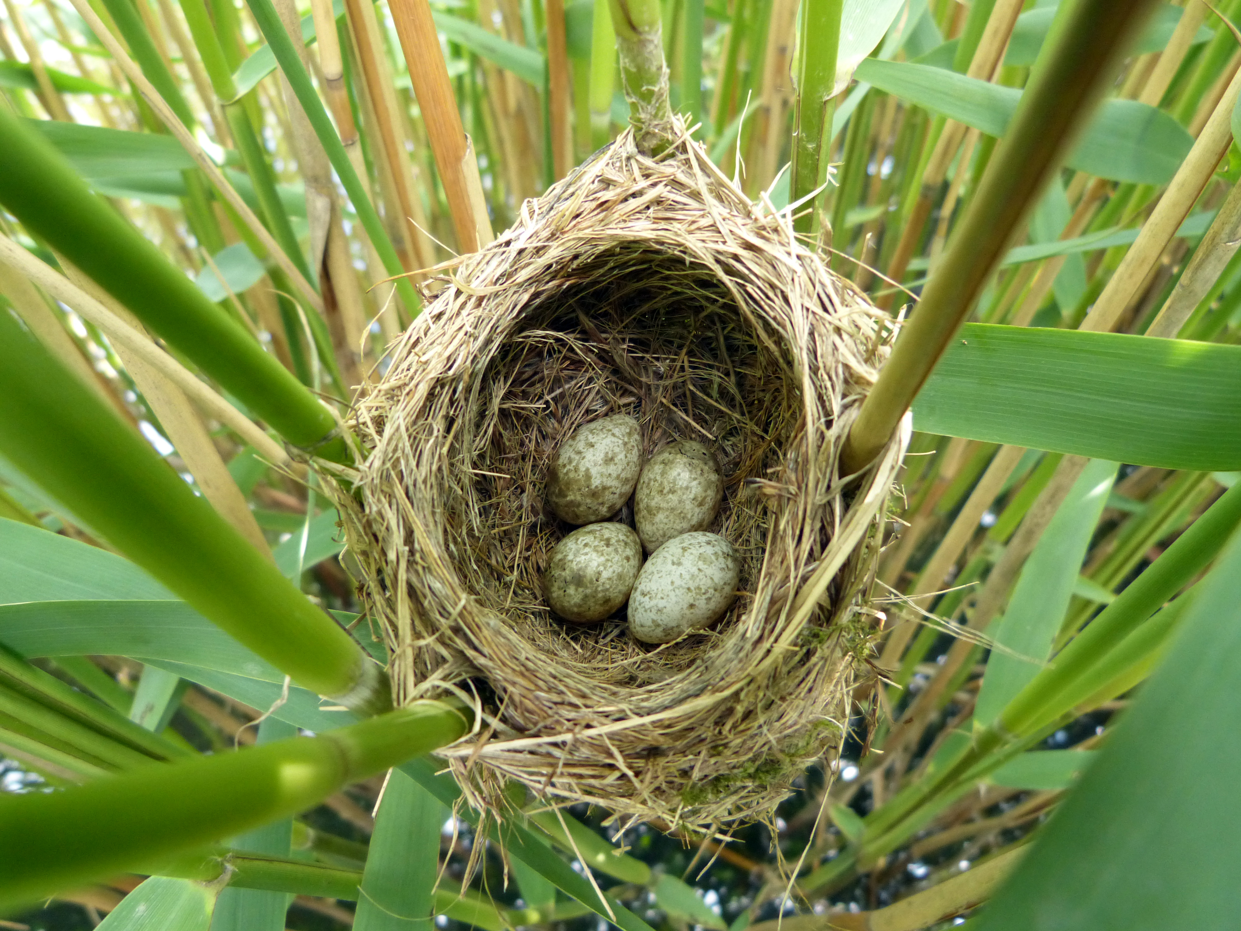 Latin name Acrocephalus scirpaceus Family Warblers and allies (Sylviidae) Overview The reed warbler is a plain unstreaked warbler. It is warm brown above and buff... Where to see them ... When to see them Mid-April to early October. What they eat Insects; berries in autumn